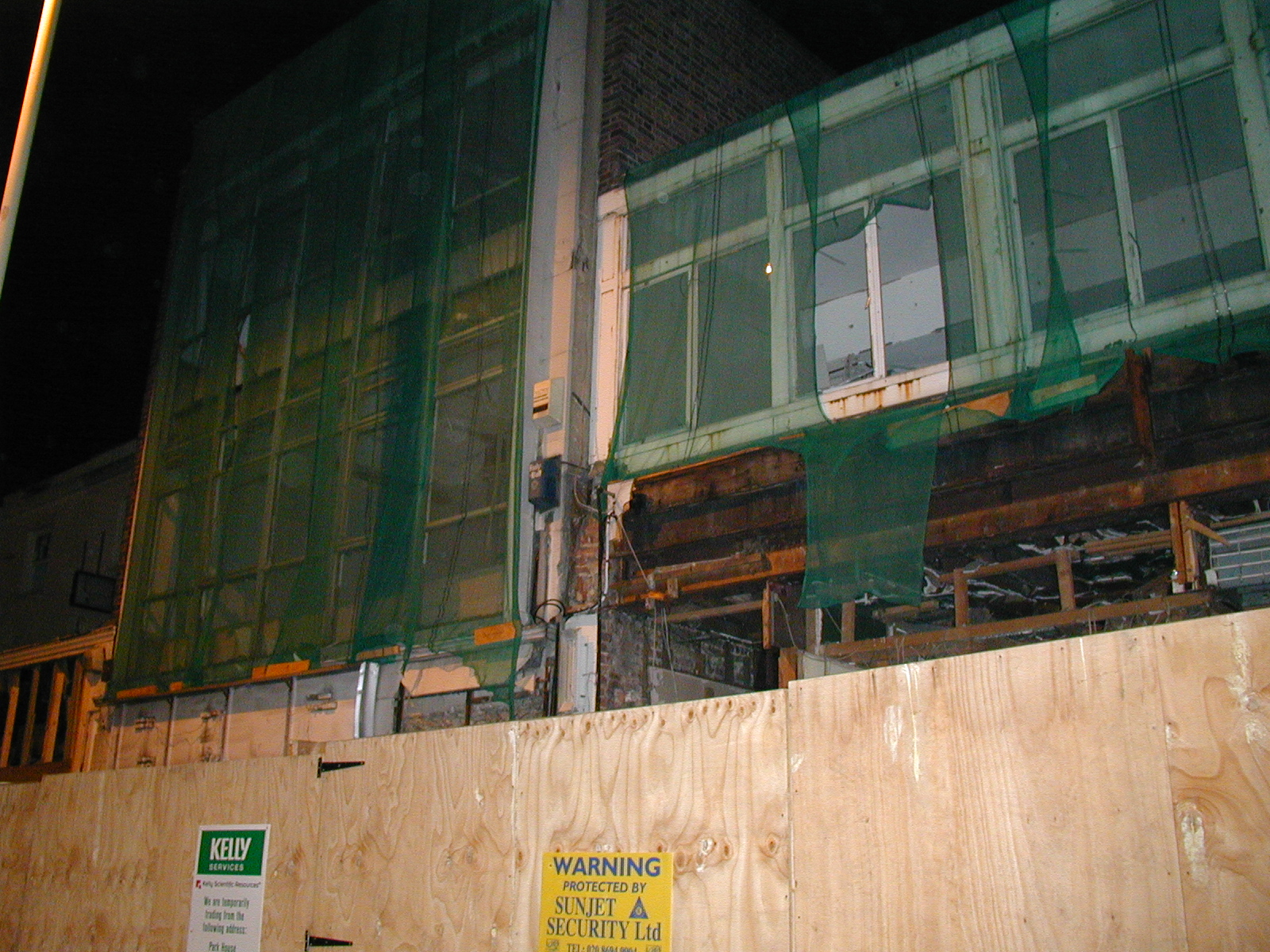 On the 3rd August 2001 the Real IRA exploded a car bomb in Ealing.